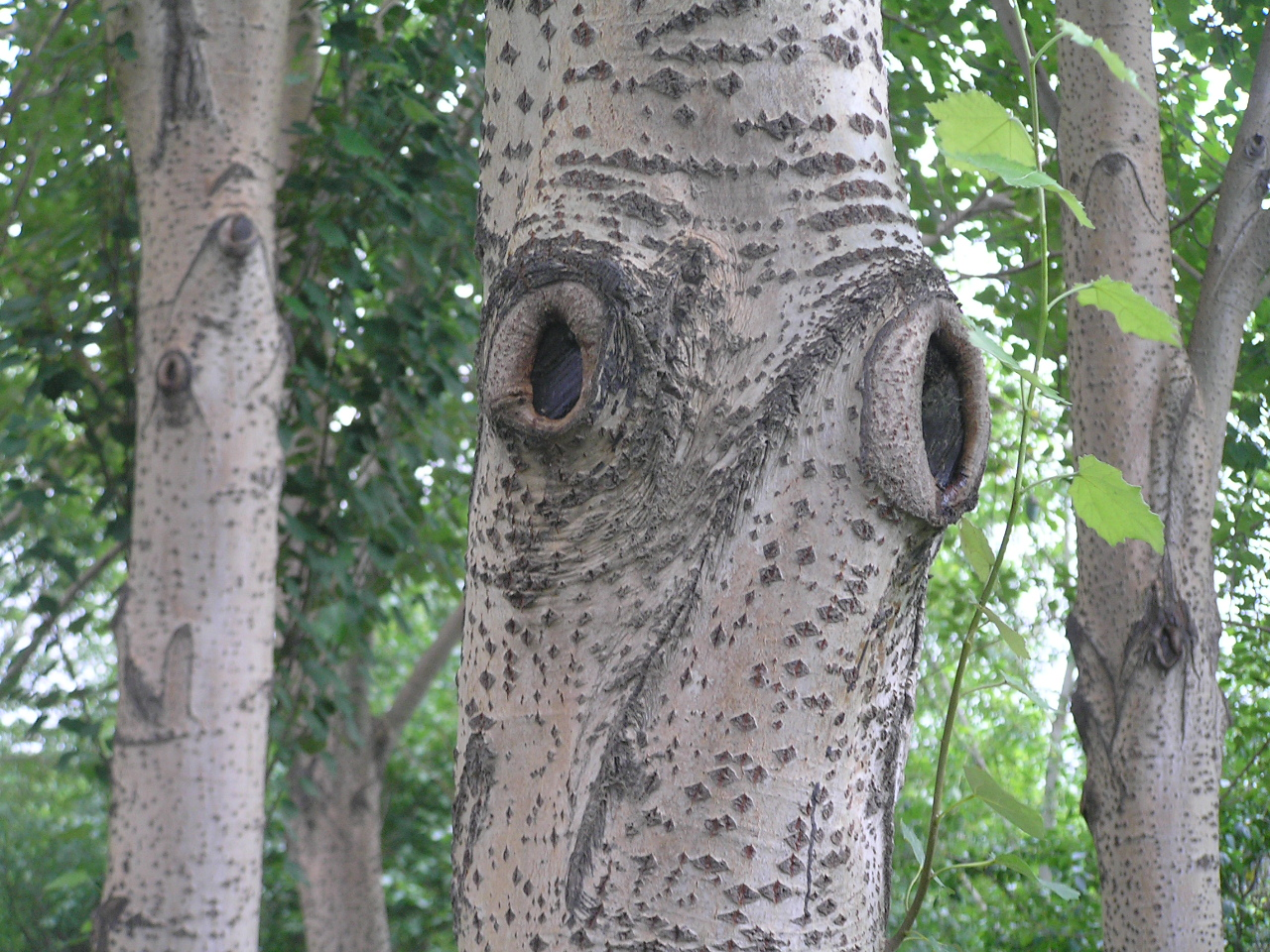 Populus sp. Betula platyphylla var. japonica, Akiyoshi Matsuoka